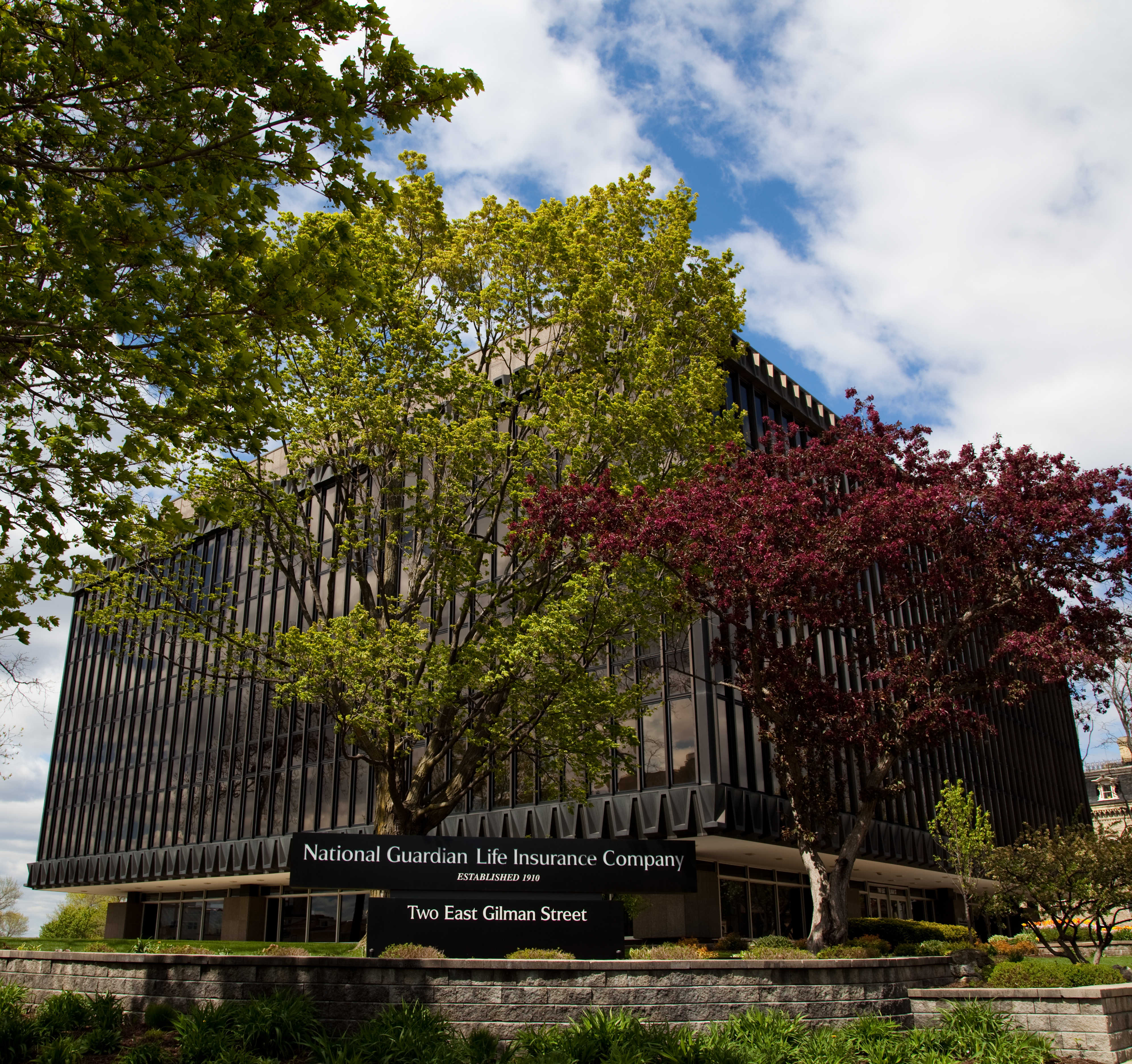 National Guardian Life Insurance Company headquarters in Madison, Wisconsin